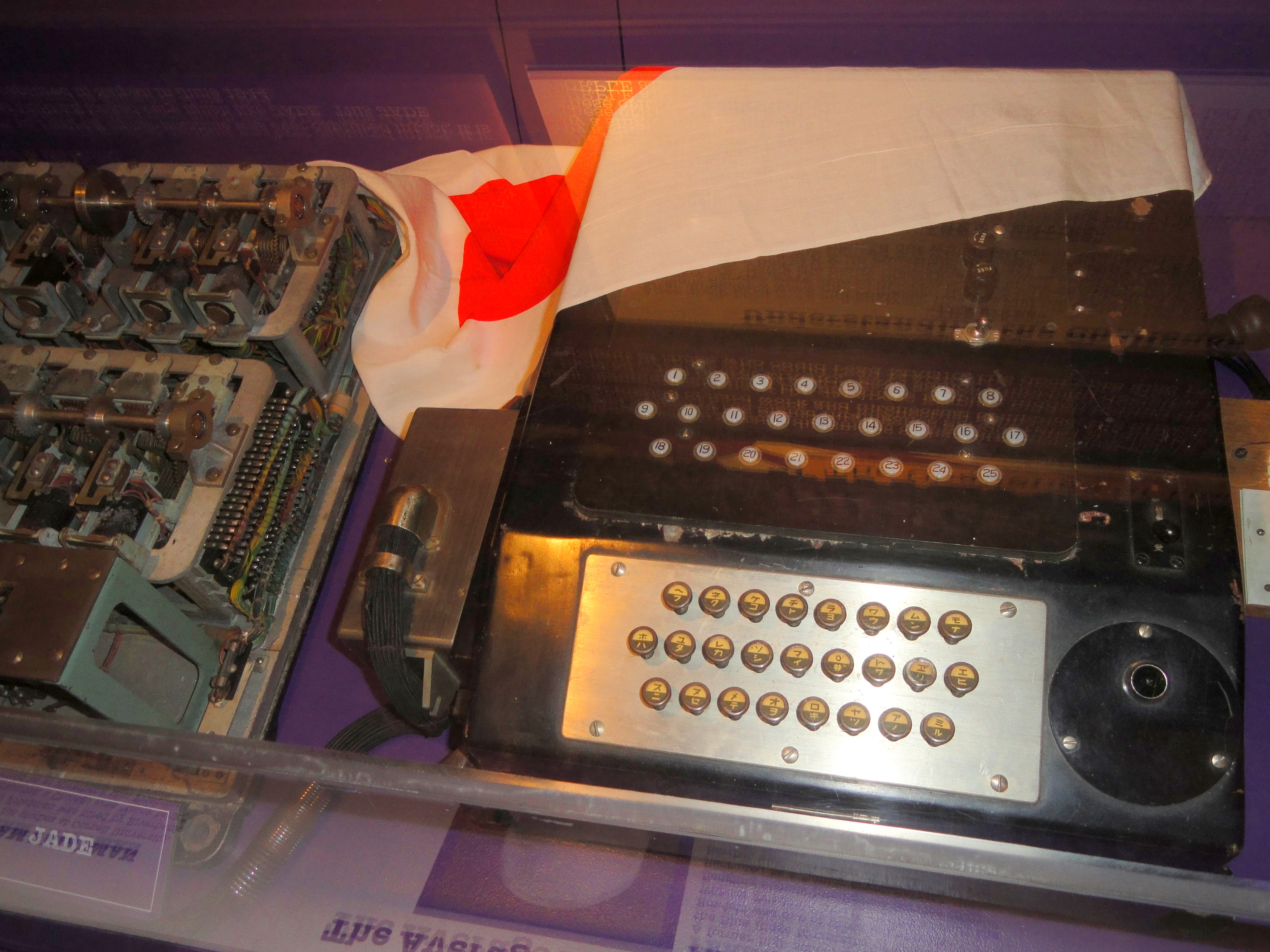 Keyboard for JADE Cipher Machine. Keyboard is Katakana. Numbers above keyboard are likely used to set rotor positions. Exhibit in the National Cryptologic Museum, Fort Meade, Maryland, USA. All items in this museum are unclassified; items created by the United States Government are not subject to copyright restrictions.